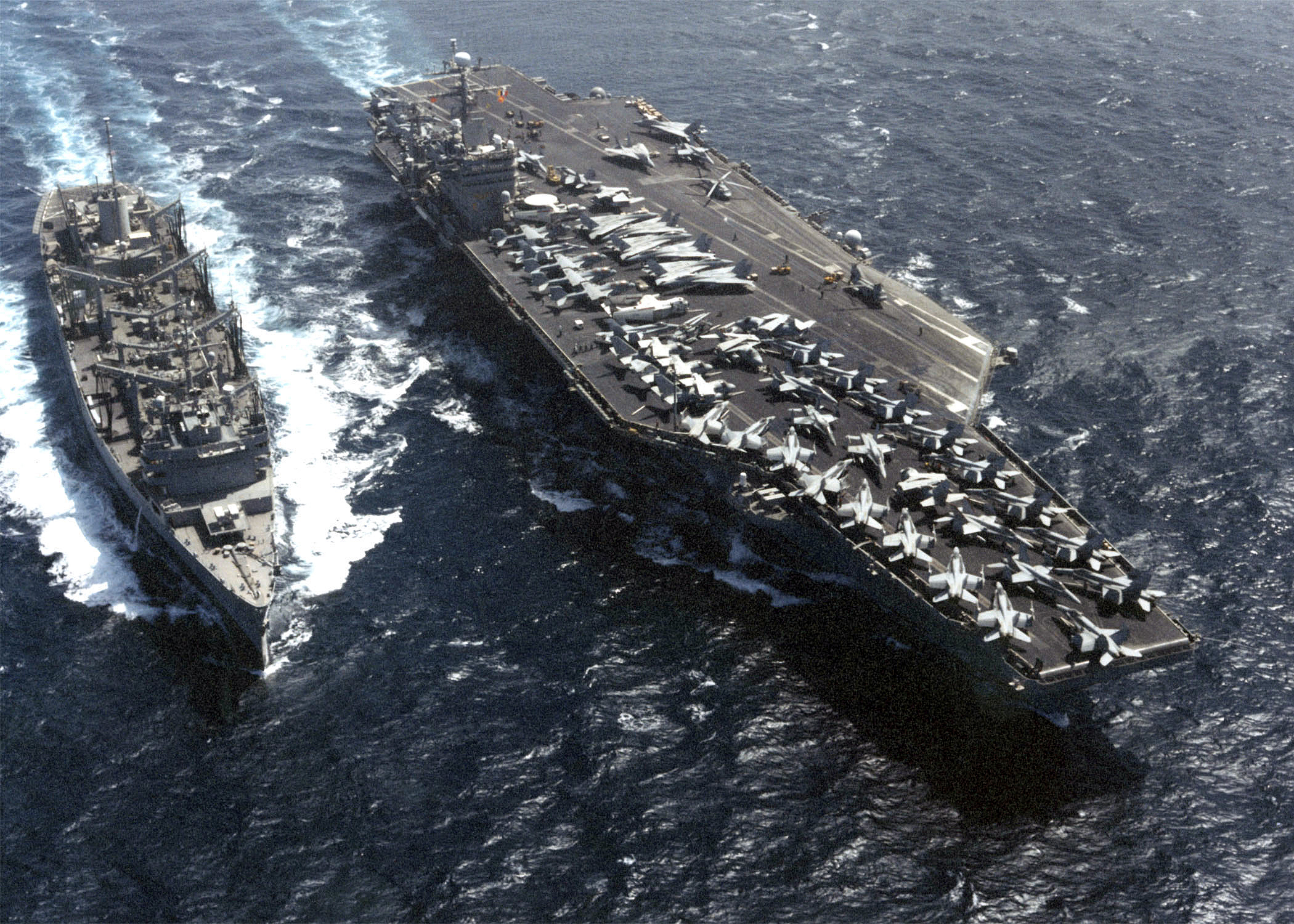 At sea in support of Operation Enduring Freedom (Oct, 12, 2001) -- USS Carl Vinson (CVN 70) and the fast combat support ship USS Sacramento (AOE 1) steam side-by-side during a routine replenishment at sea (RAS). The Vinson is conducting flight operations against terrorist training camps and Taliban military installations in Afghanistan. The carefully-targeted actions are designed to disrupt the use of Afghanistan as a base for terrorist operations and to attack the military capability of the Taliban regime in support of Operation "Enduring Freedom." U.S. Navy Photo by Photographer's Mate 3rd Class Carol Warden. (RELEASED)